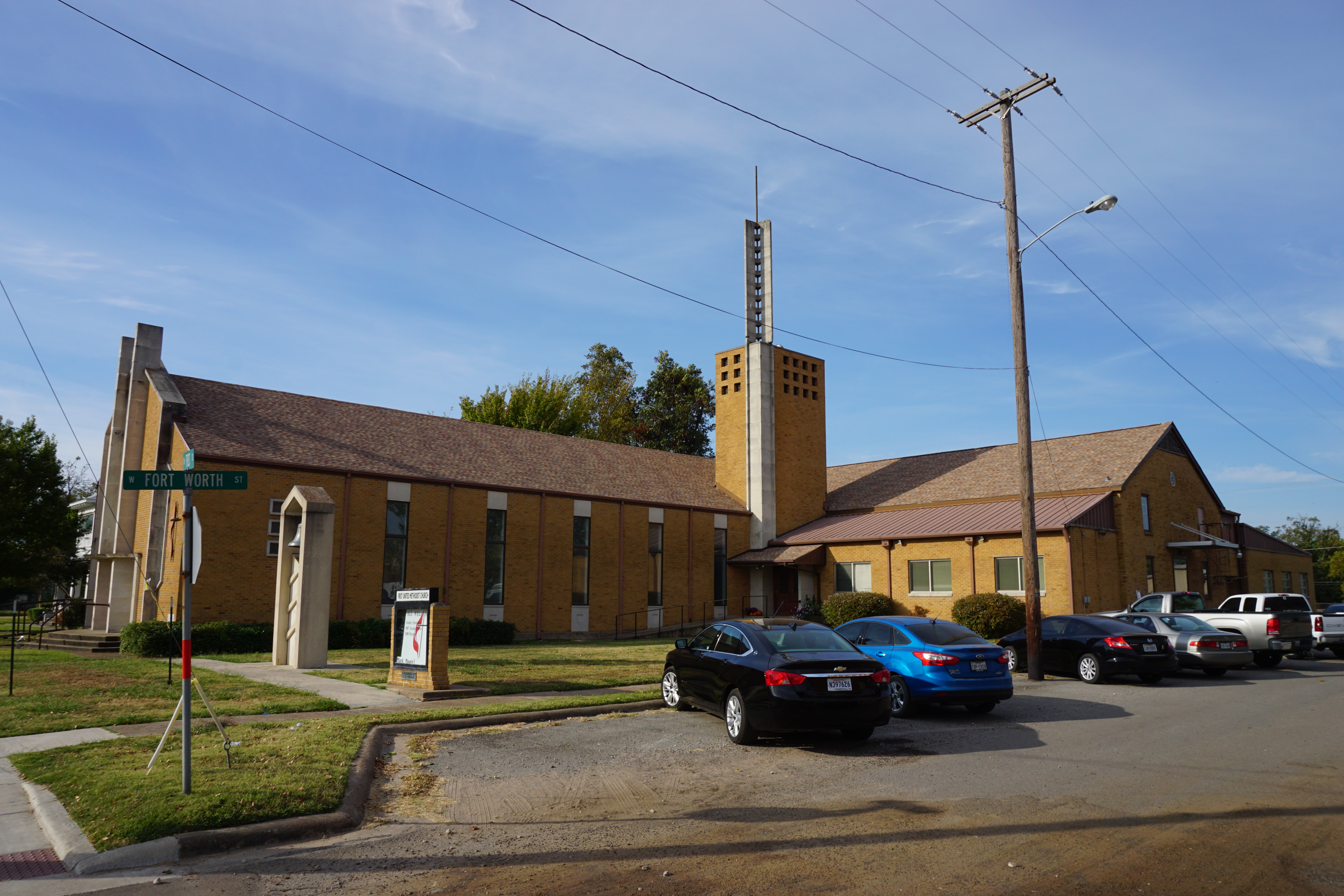 First United Methodist Church in Cooper, Texas (United States).